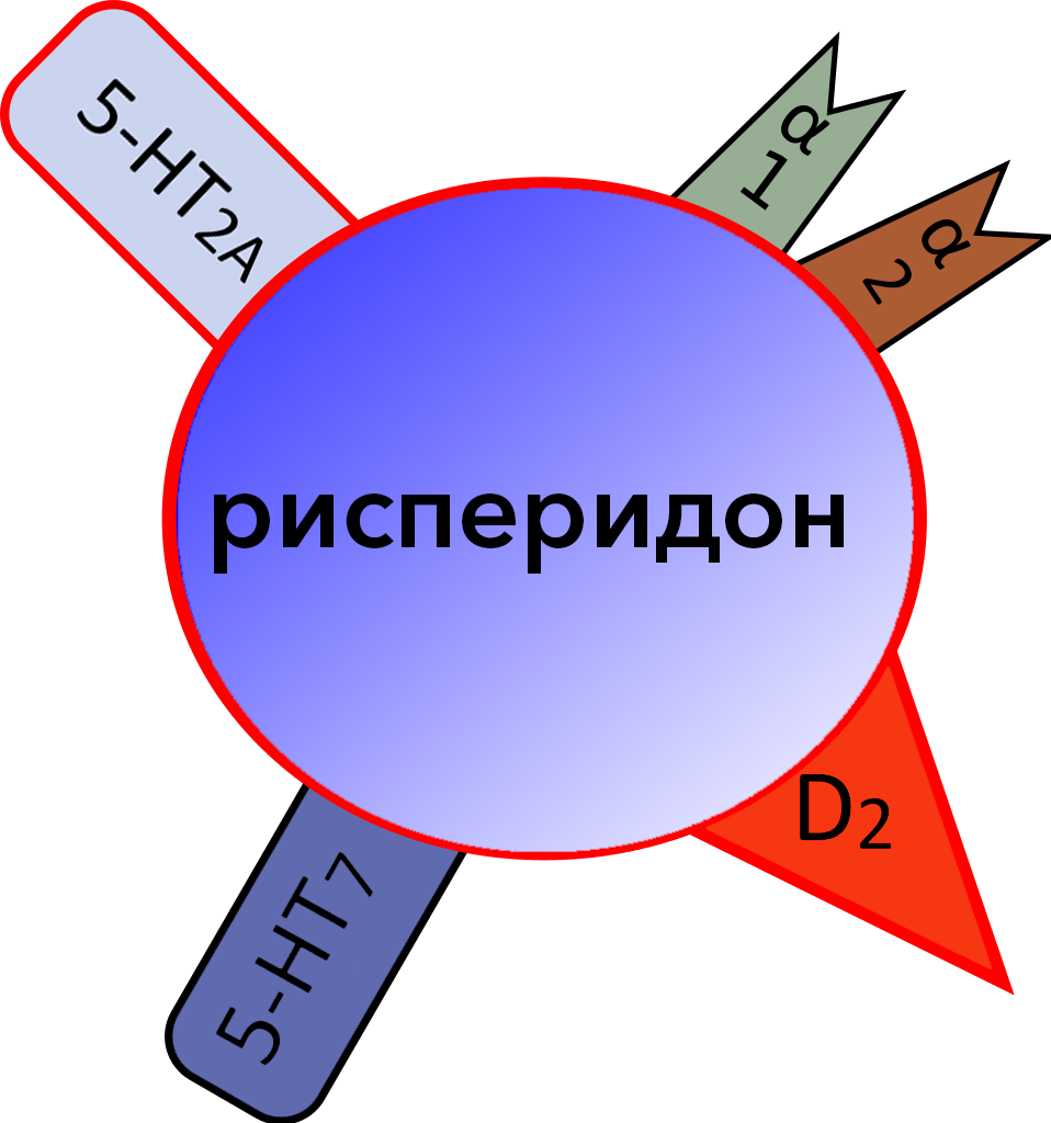 Risperidone's pharmical icon in Russian.